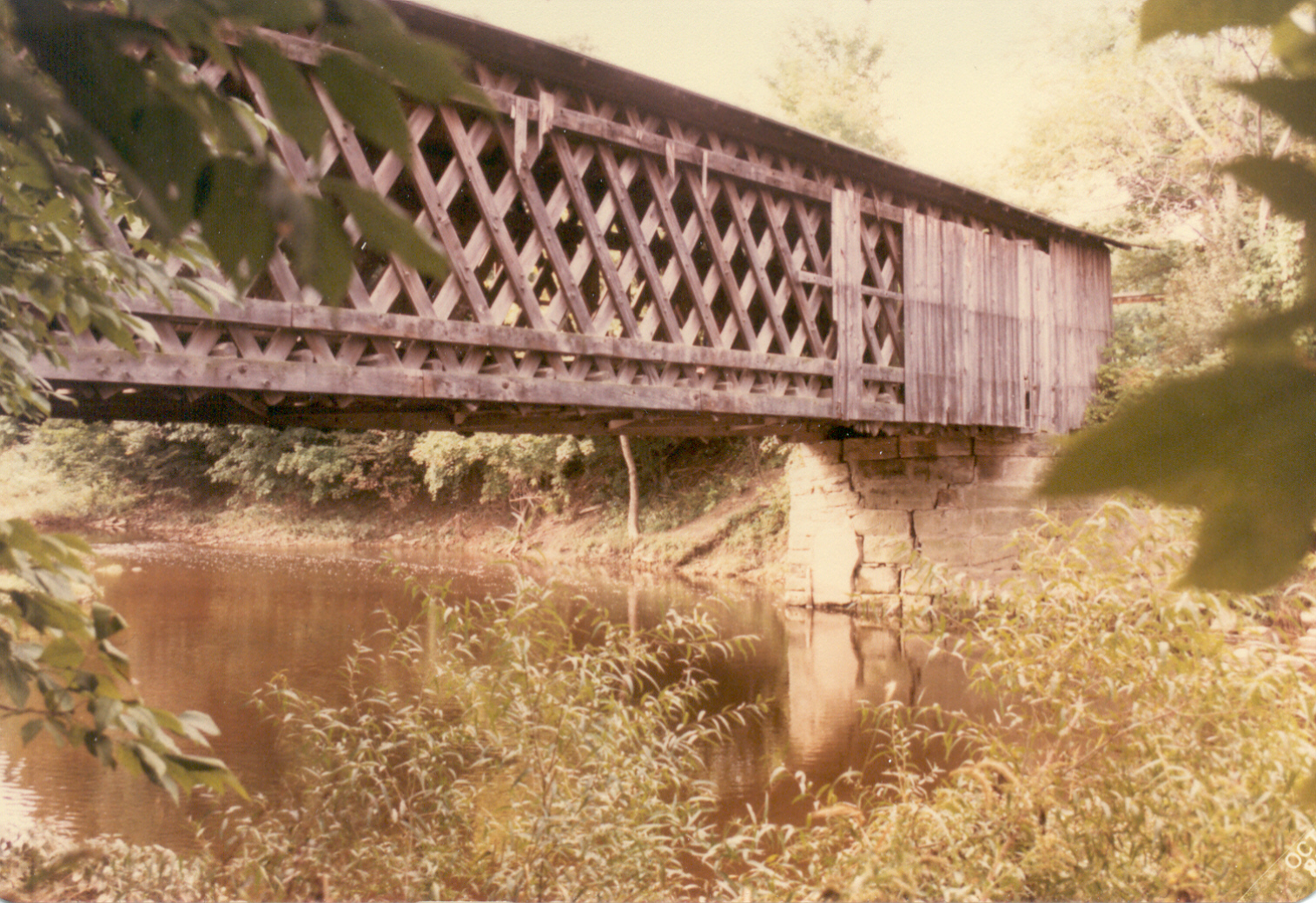 Root Road Townsend Lattice Truss